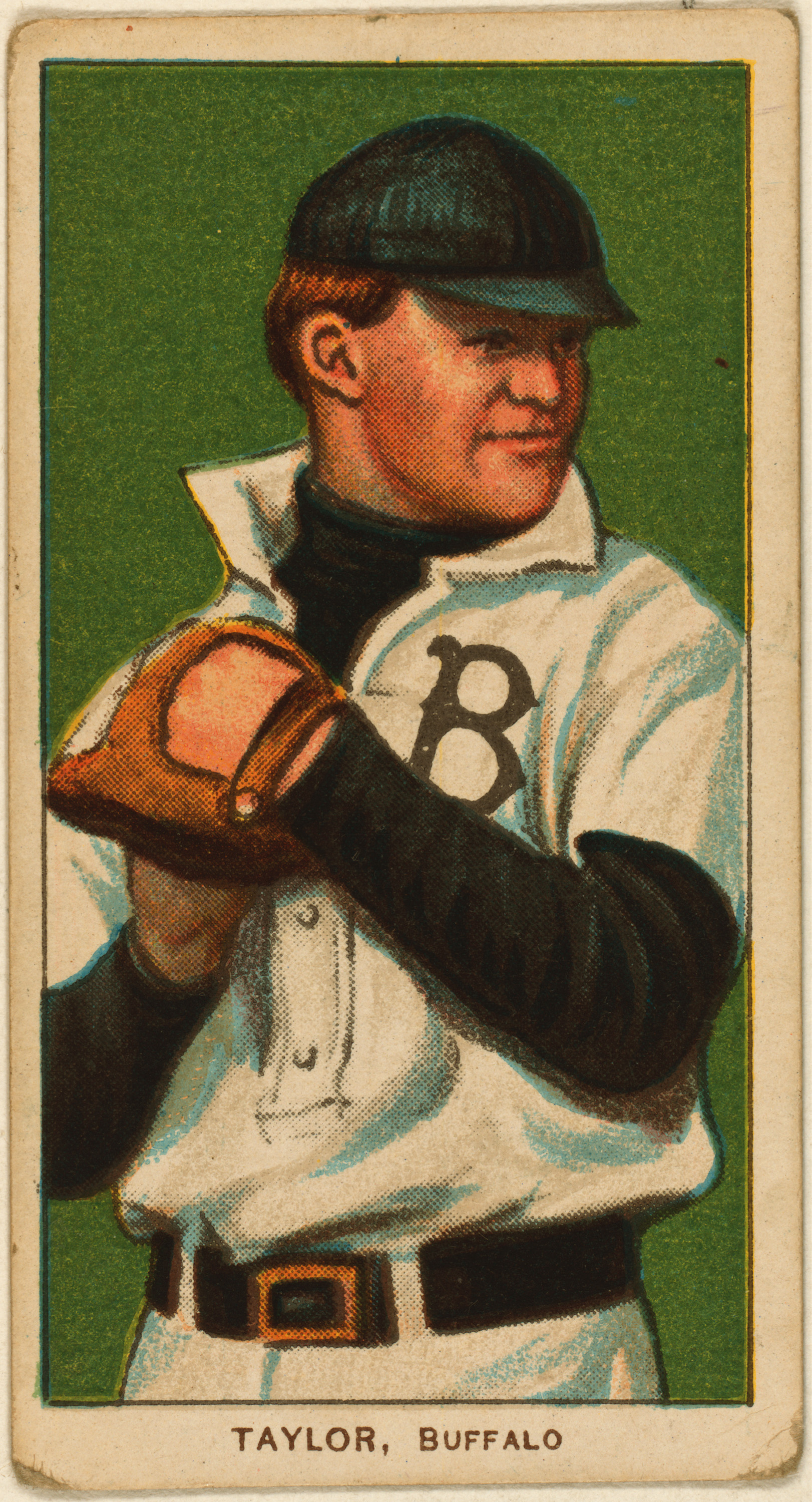 Baseball card of Luther "Dummy" Taylor, pitcher, Buffalo Bisons. T206 White Borders set. reverse